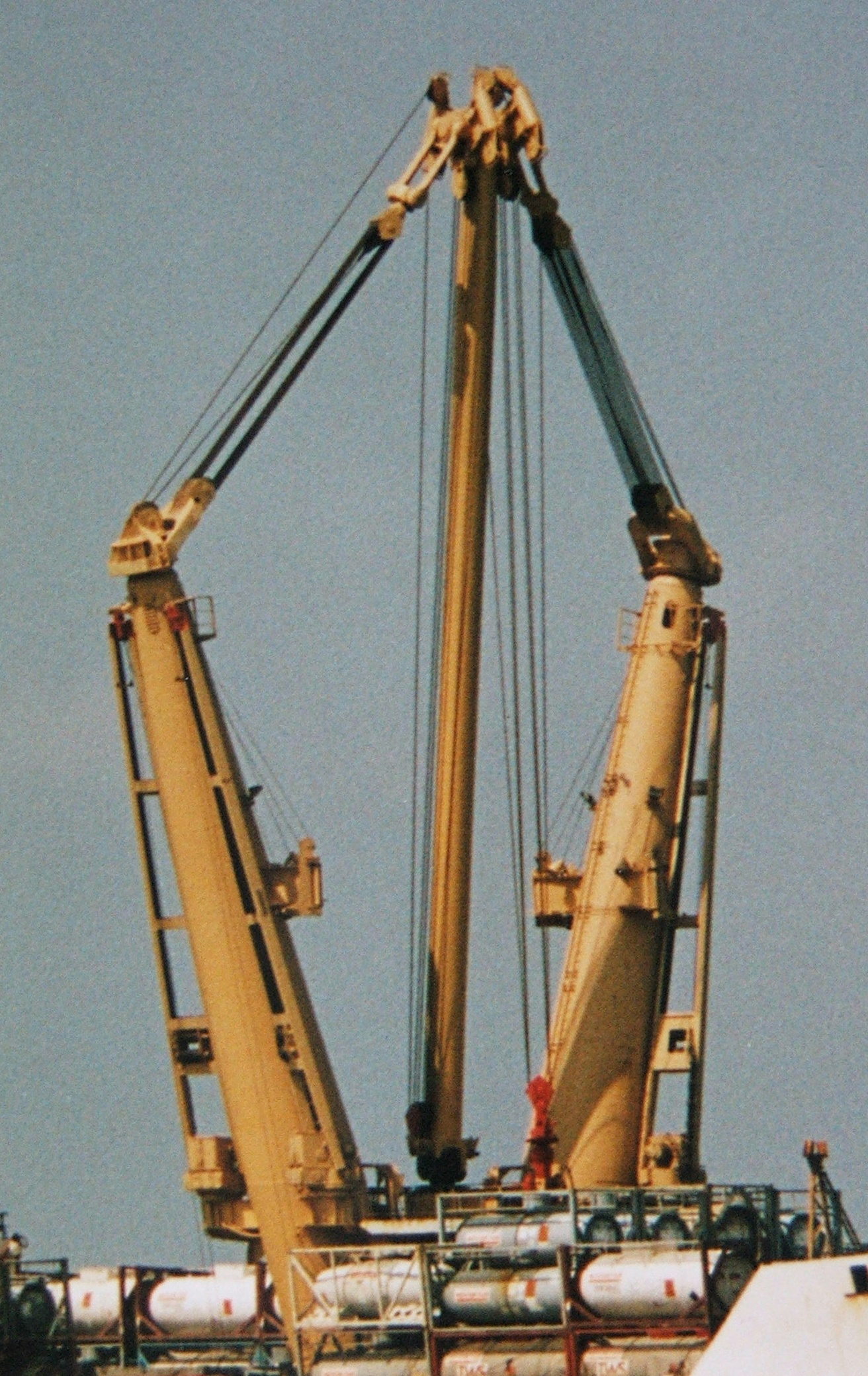 "Stülcken"-Type - heavy cargo gear